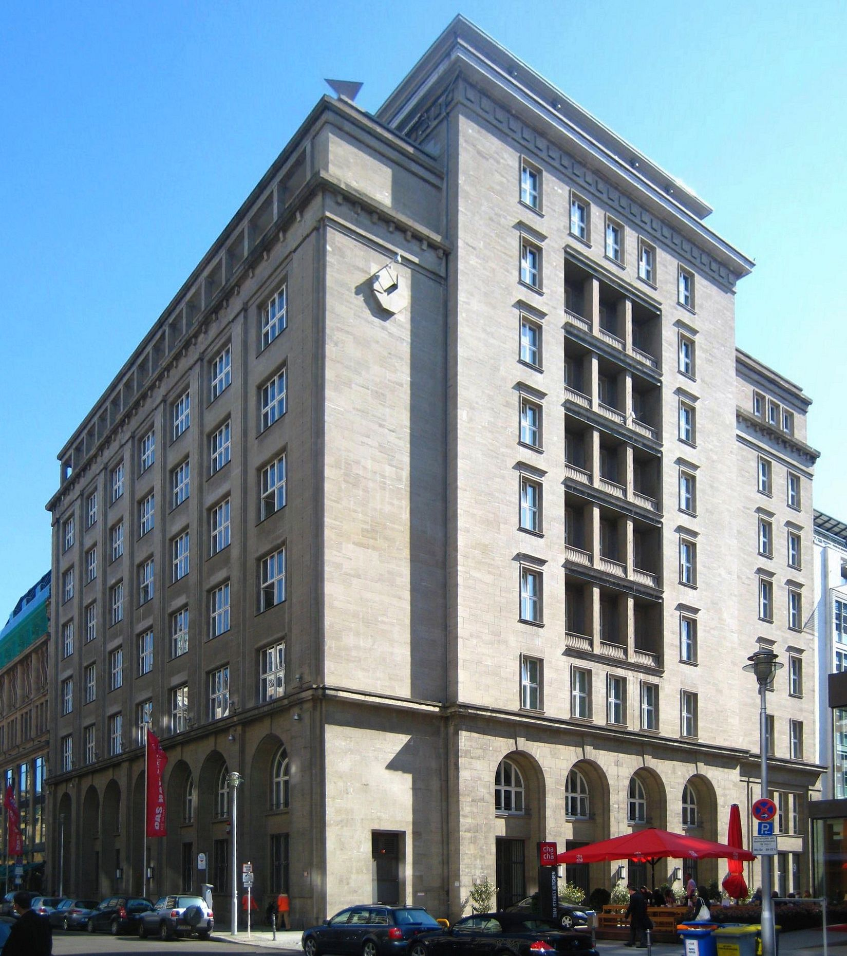 Office building of the German Confederation of Skilled Crafts at Mohrenstraße No. 20-21 in Berlin-Mitte. It was built in 1908 to a design by Georg Rathenau and altered from 1957 to 1958 by Erich H. J. Kuhnert to serve as party office of the NDPD. The building has been designated as a historic landmark.